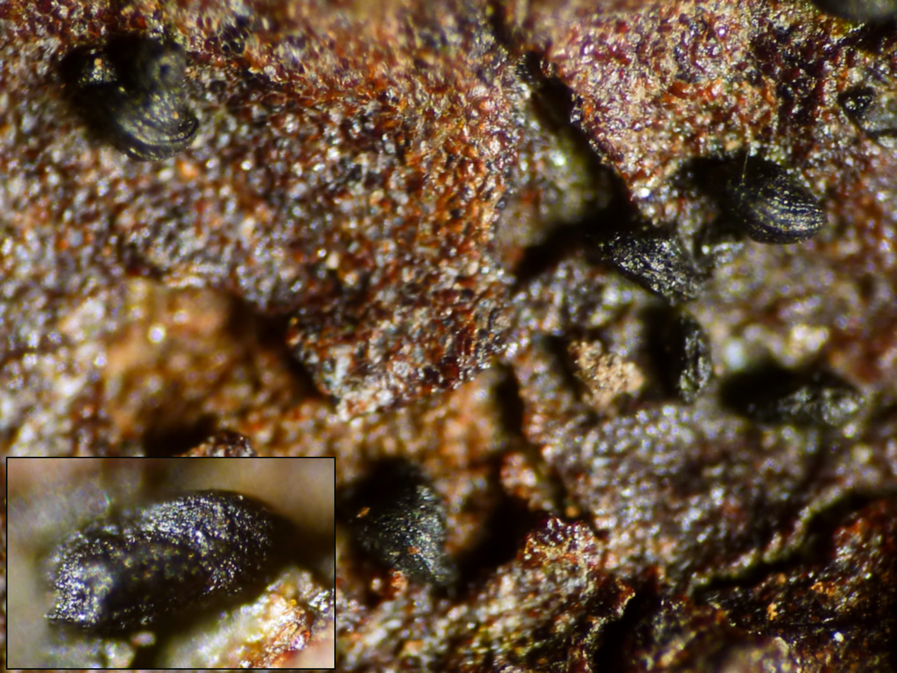 The ascomycete fungus Mytilinidion tortile (Schwein.) Sacc.; photographed growing on pine bark in Braga, Portugal.